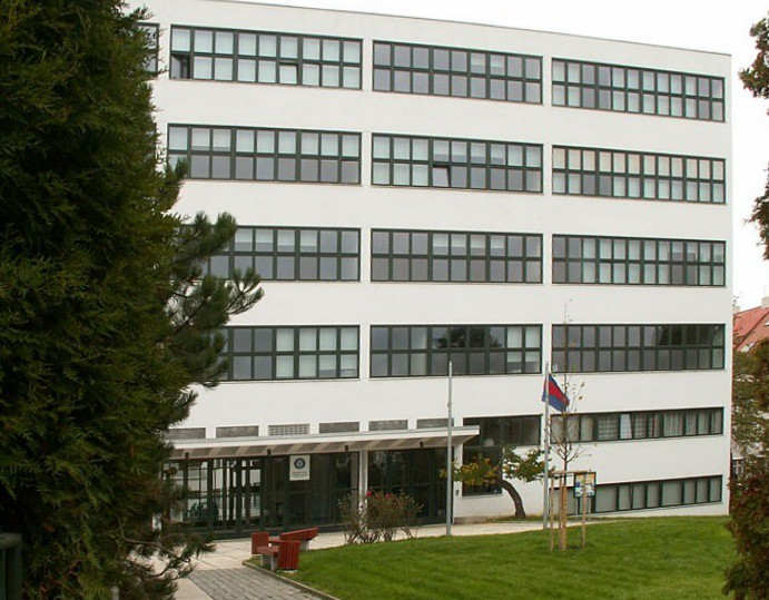 CH ZUS Harmonie-budova školy